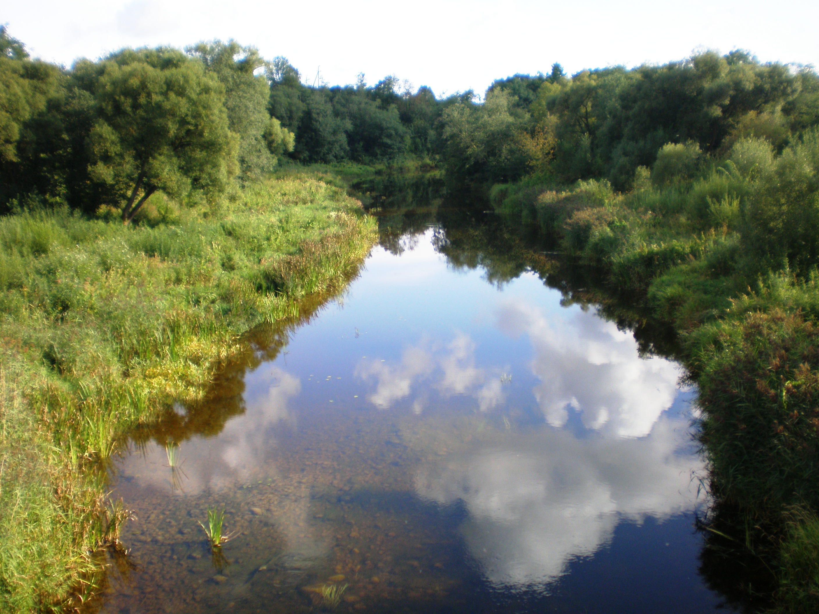 River Šušvė near Guptilčiai village, Kėdainiai district, Lithuania